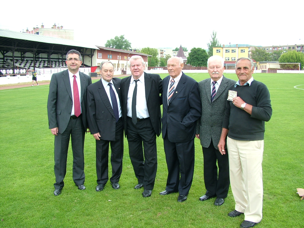 Soccer legends with director of the FC Dorog in the Buzanszky stadium in 2014. From left: Laszlo Mayer director, Jozsef Bartalos, Lajos Szucs, Jeno Buzanszky, Peter Horvath and Janos Karaba.